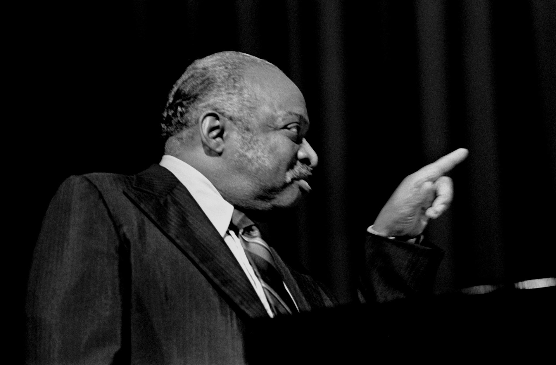 Count Basie in Hamburg, 1974